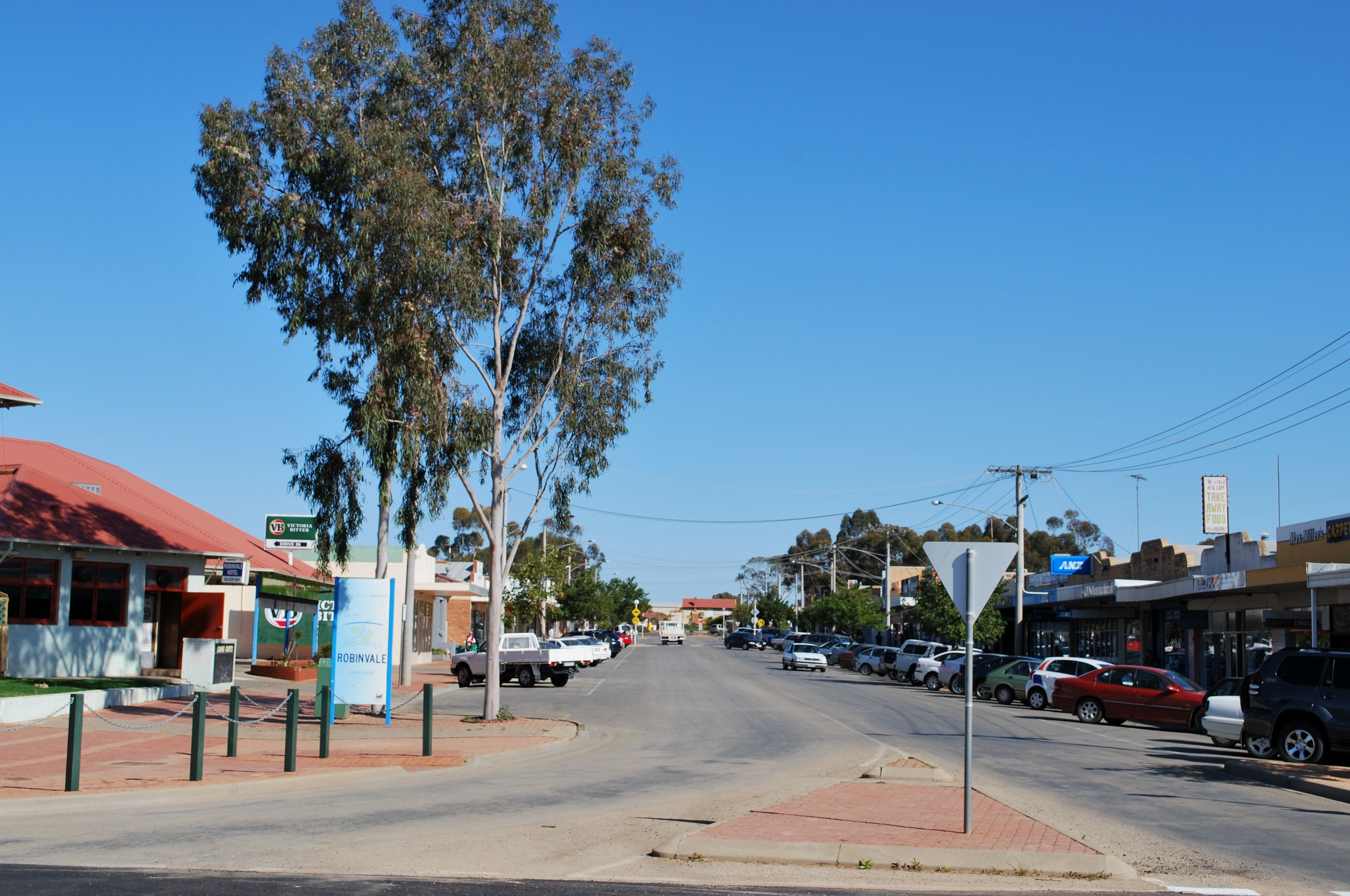 Perrin St, the main street of linkRobinvale, Victoria